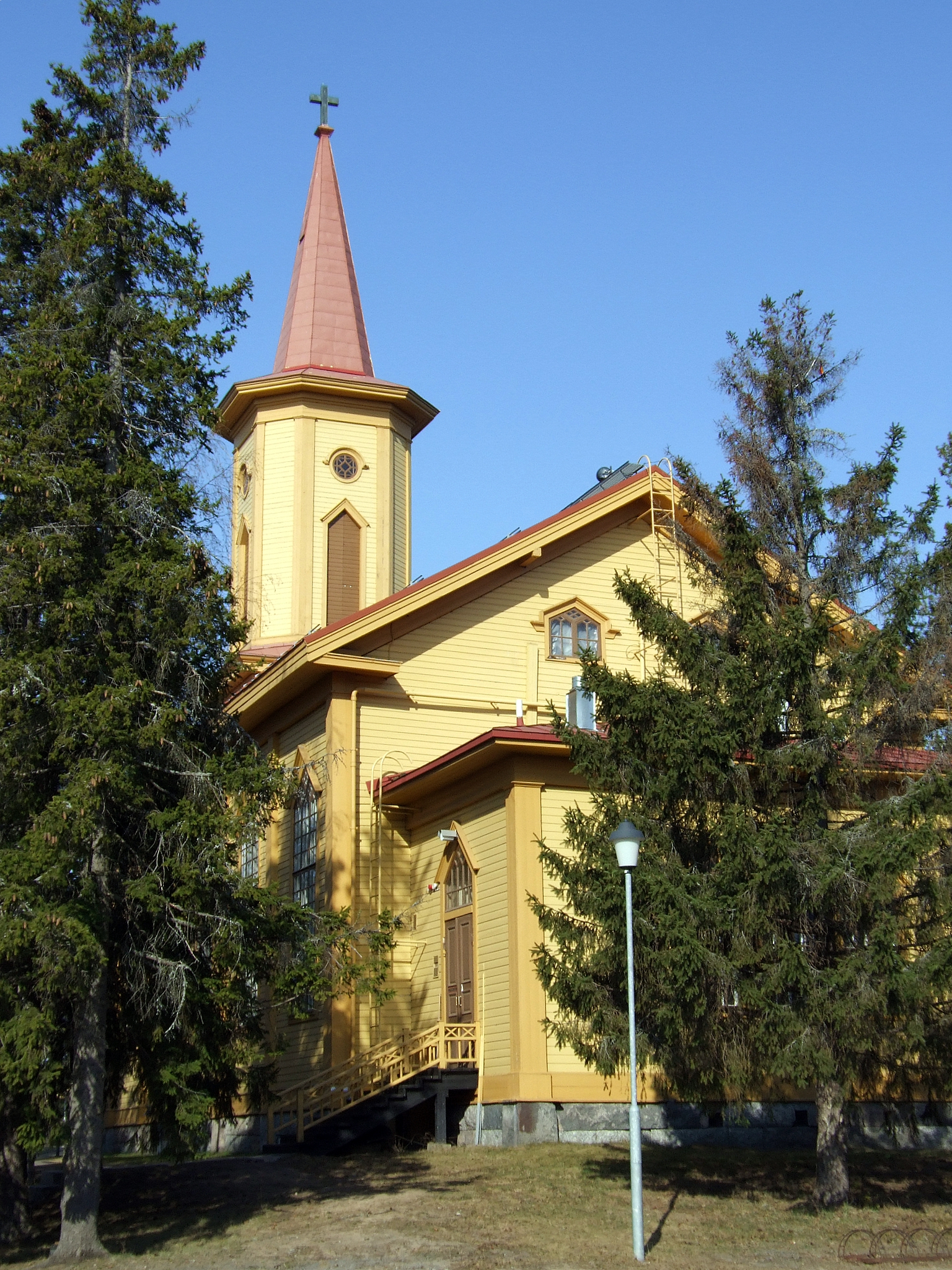 Oulunsalo Church, in Oulunsalo, Finland, was completed in 1891 and it was designed by architect Julius Basilier.